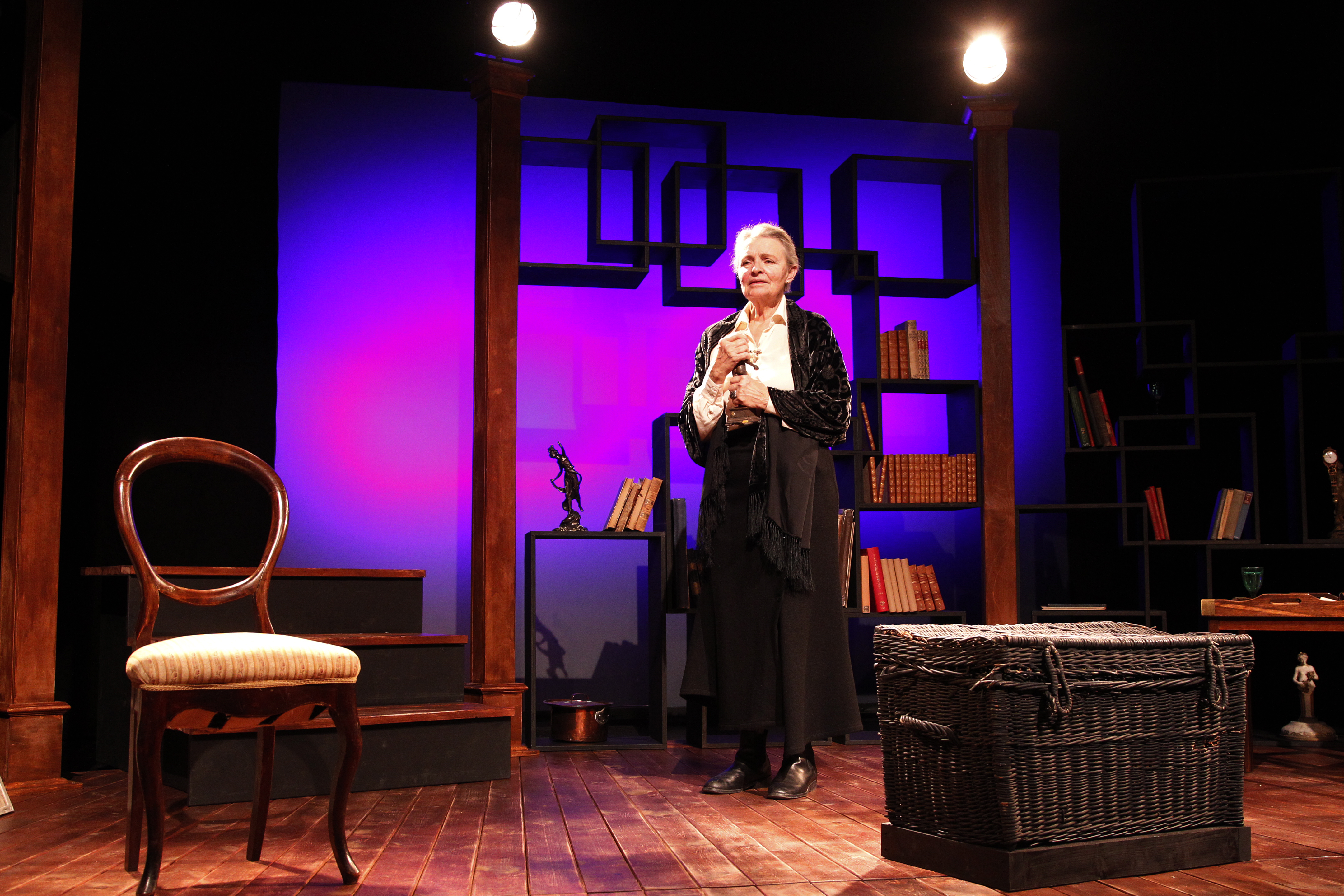 Lane Lind as Gertrude Stein in the Copenhagen theater Folketeatret's production of the play "Gertrude Stein" by Marty Martin.